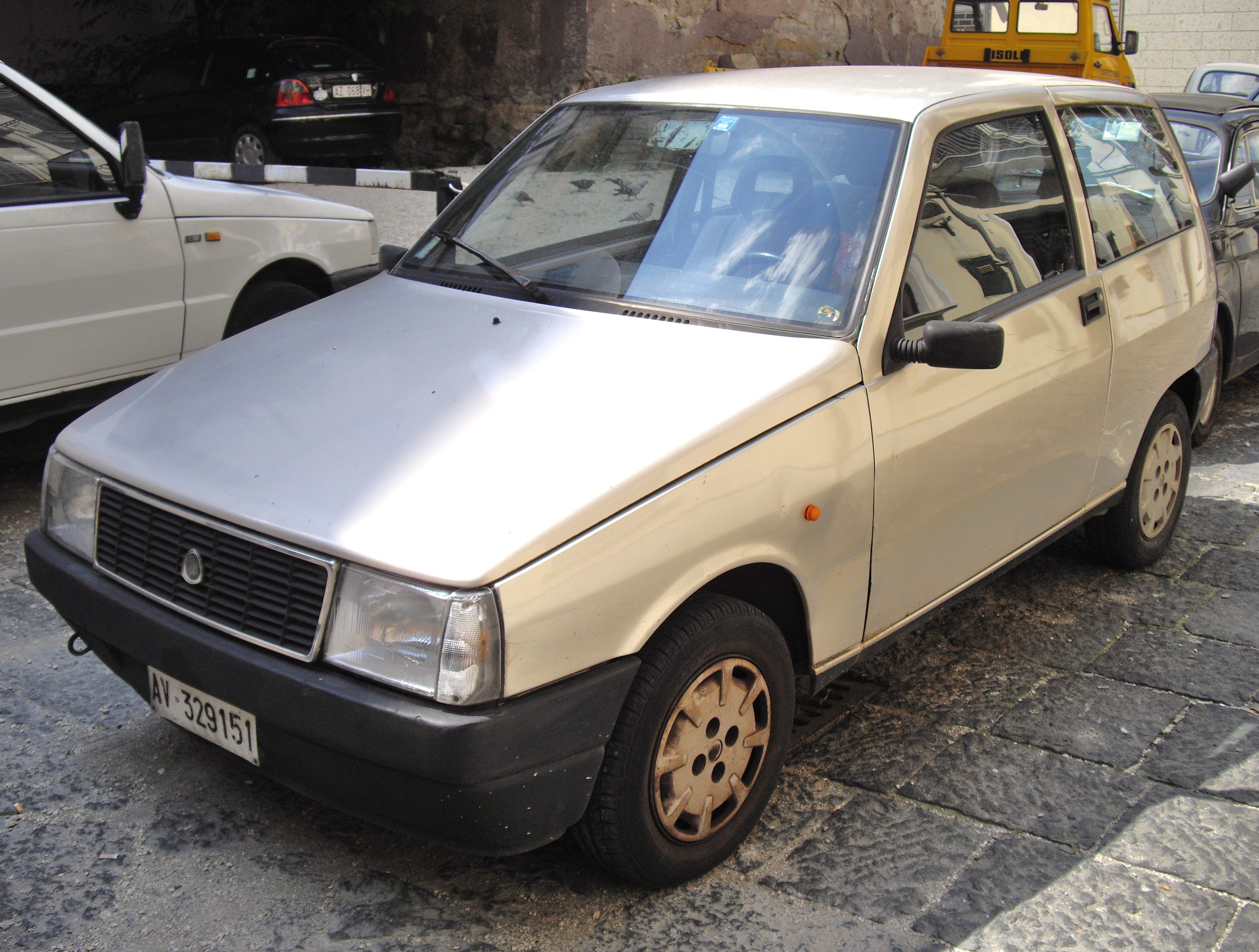 Autobianchi Y10